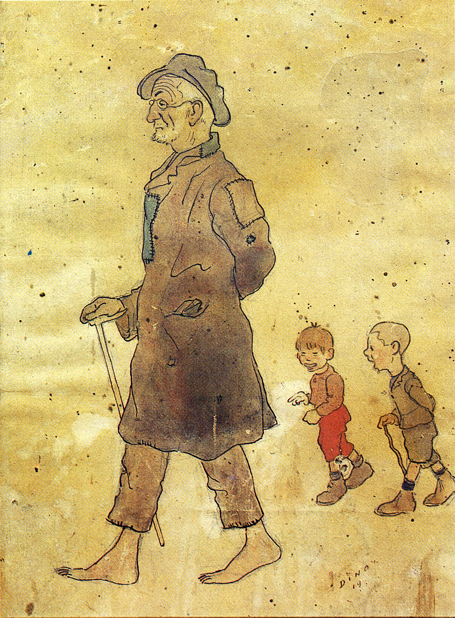 Manos, the Prevezan doctor. Sketch by Ali Dino bei, 1919.